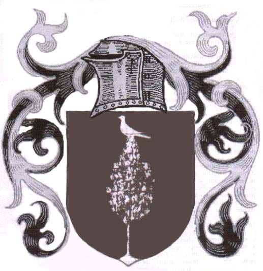 Coat of arms Rambaud de Furmeyer